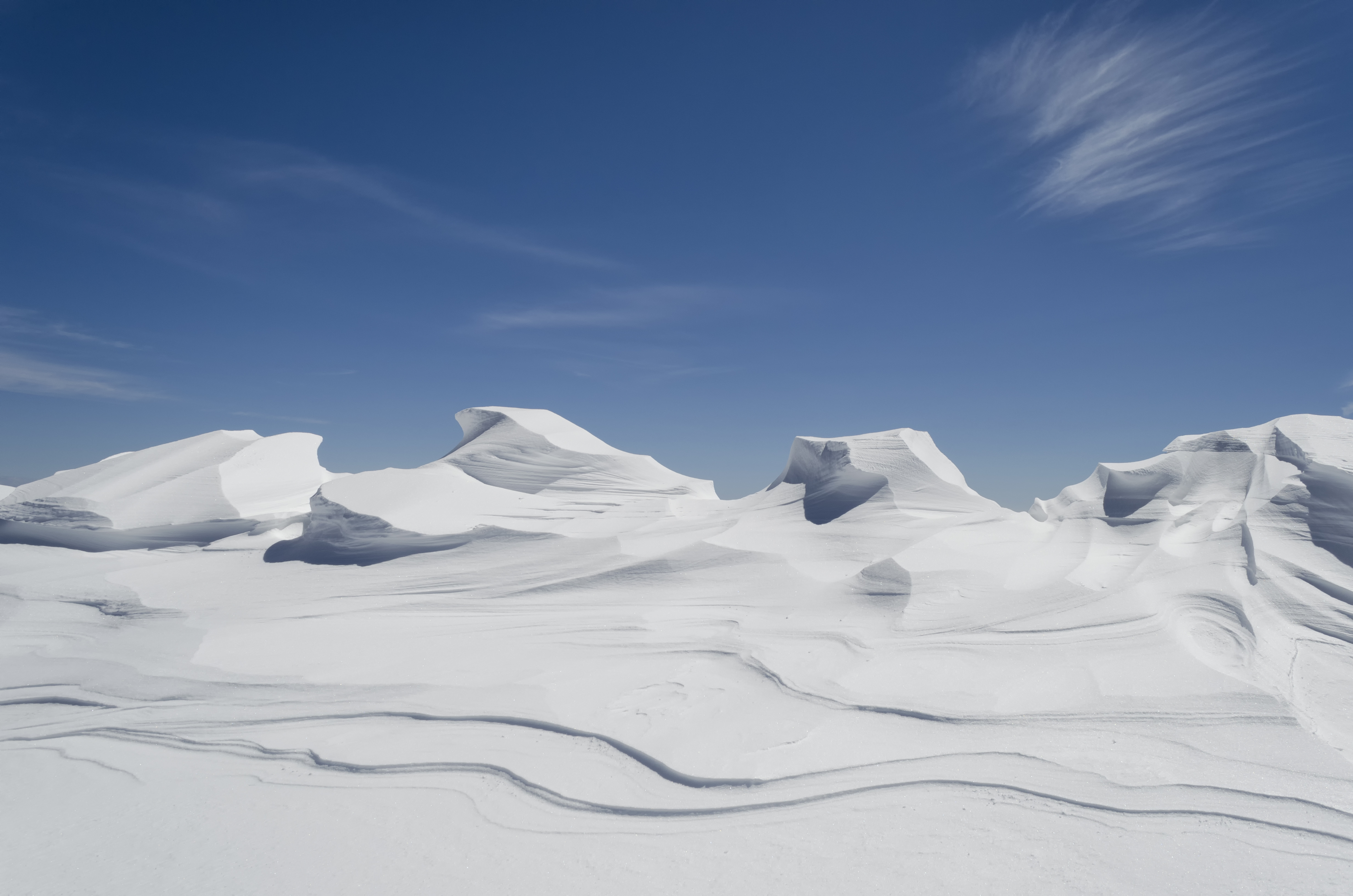 Snowdrifts in the Pelister National Park, Macedonia